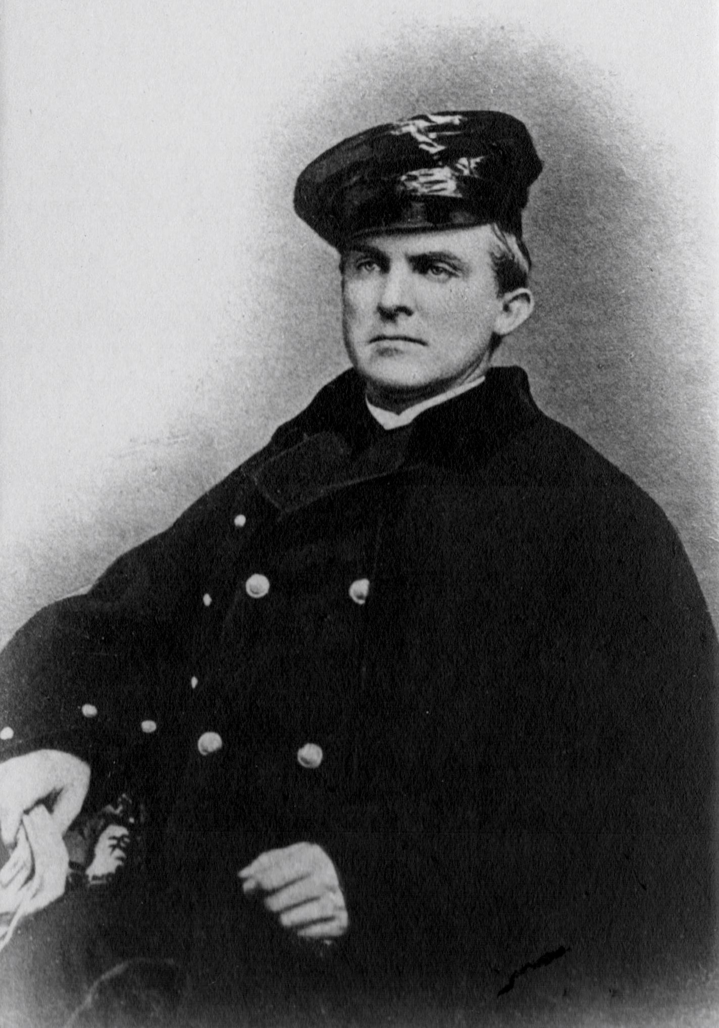 Portrait of Leonard Fulton Ross photographed by Harrison, archive of Frances Ross Freedman